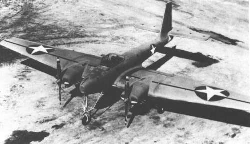 Interstate XBQ-4 assault drone prototype (variant of U.S. Navy Interstate TDR-1).